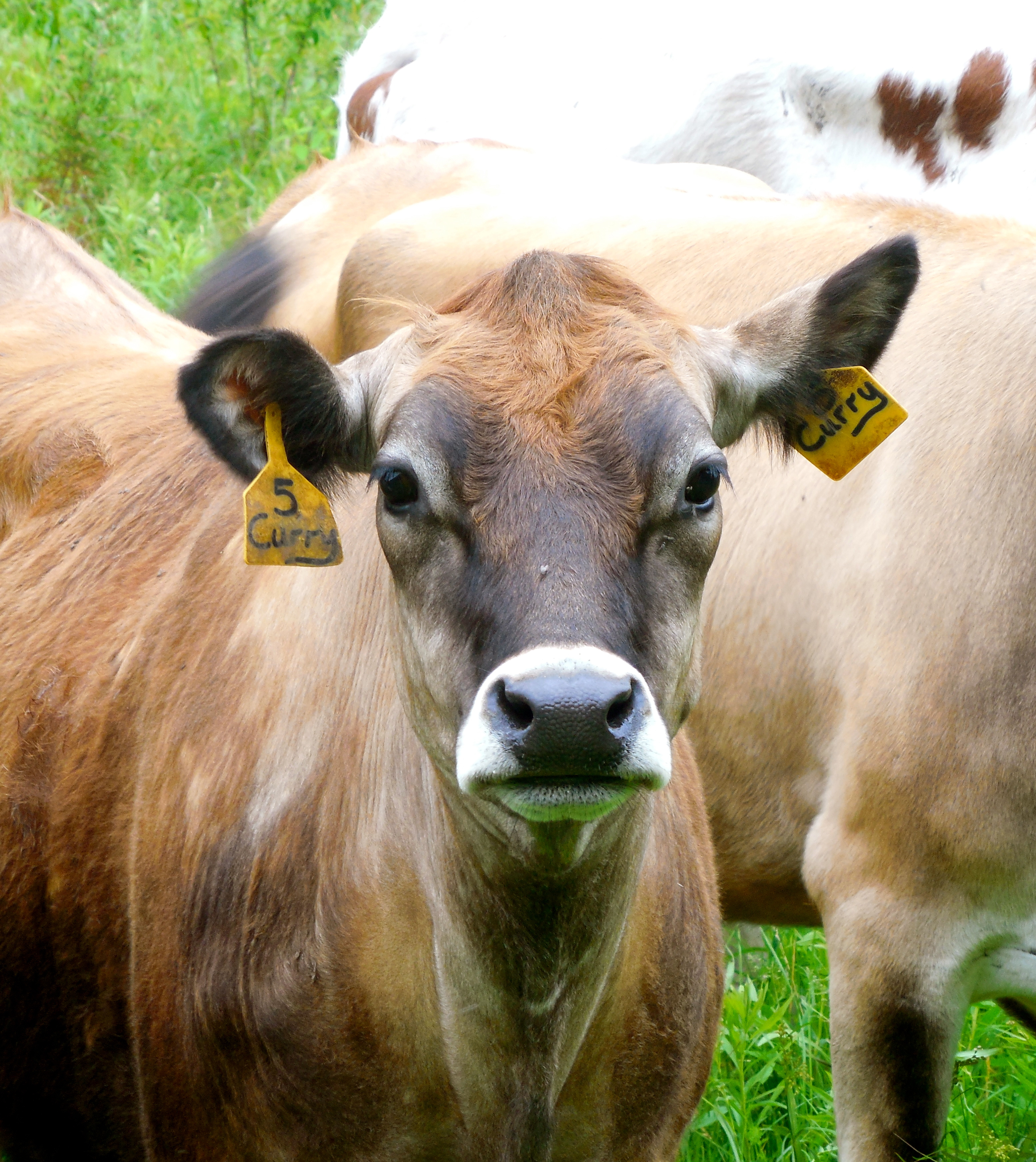 Cow with posturing ears.